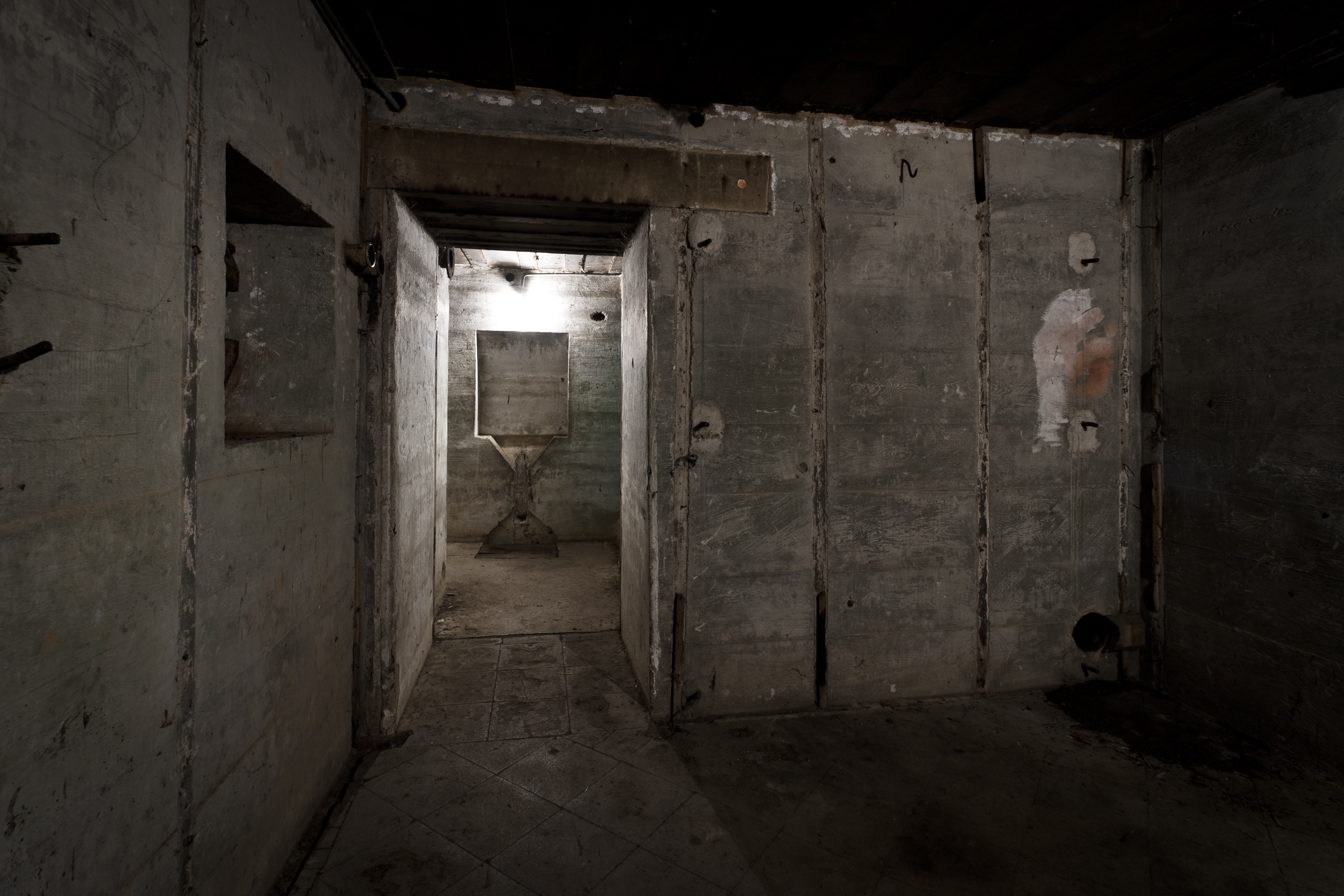 Bunker no. 5 in Martiany, Poland.